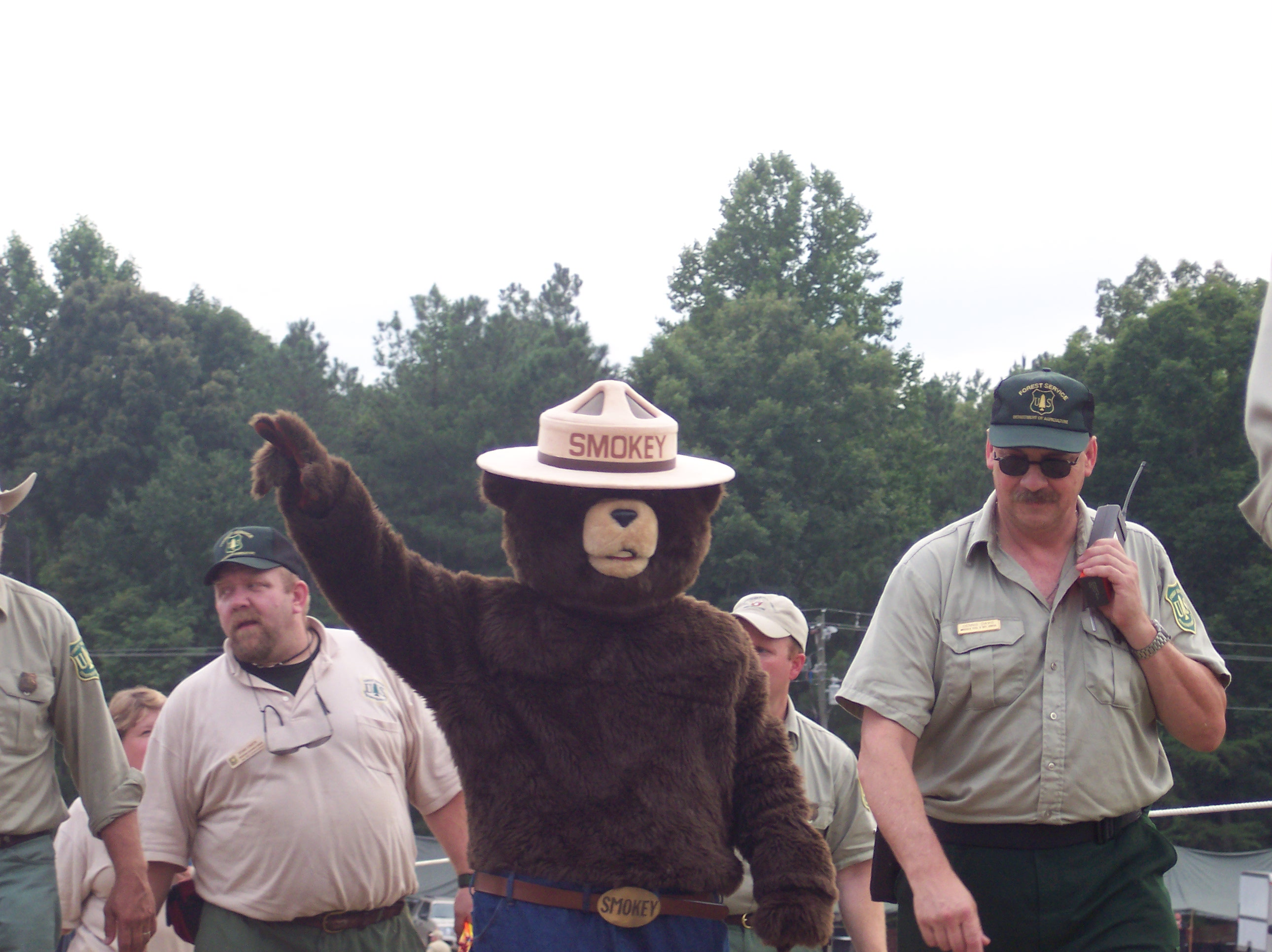 I release this image